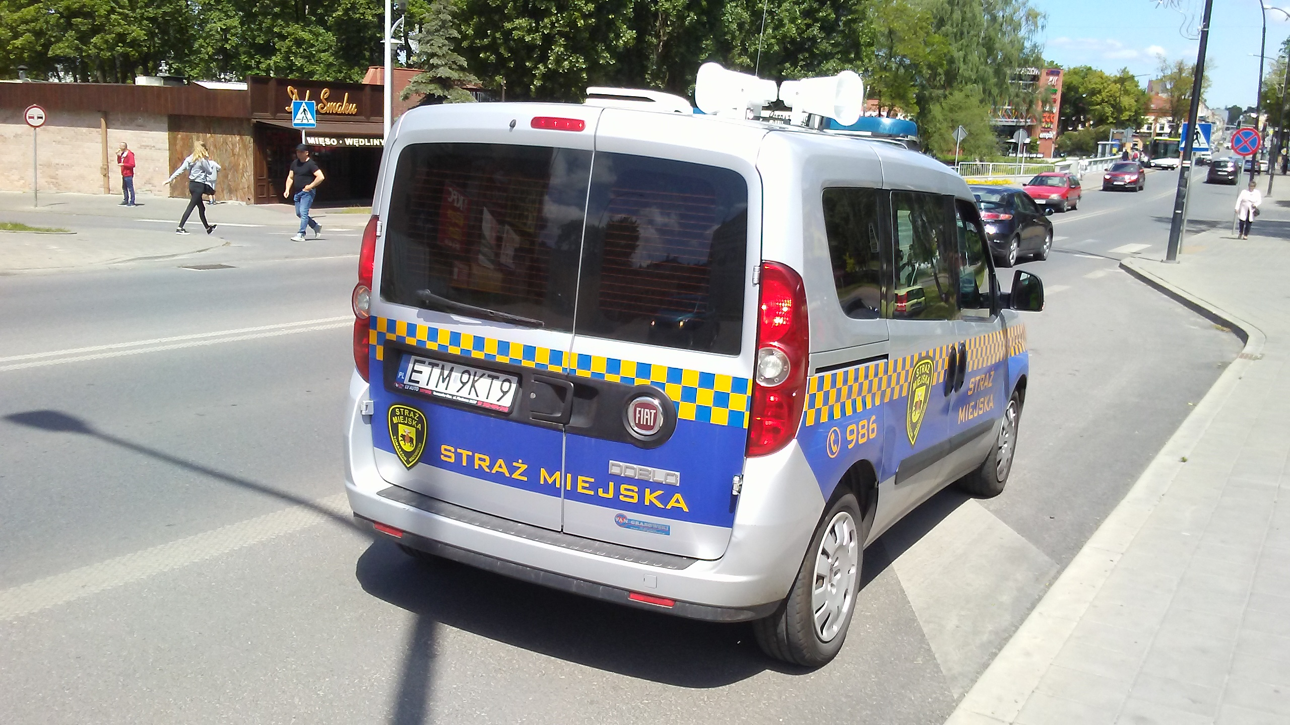 Municipal Police vehicle in Tomaszów Mazowiecki